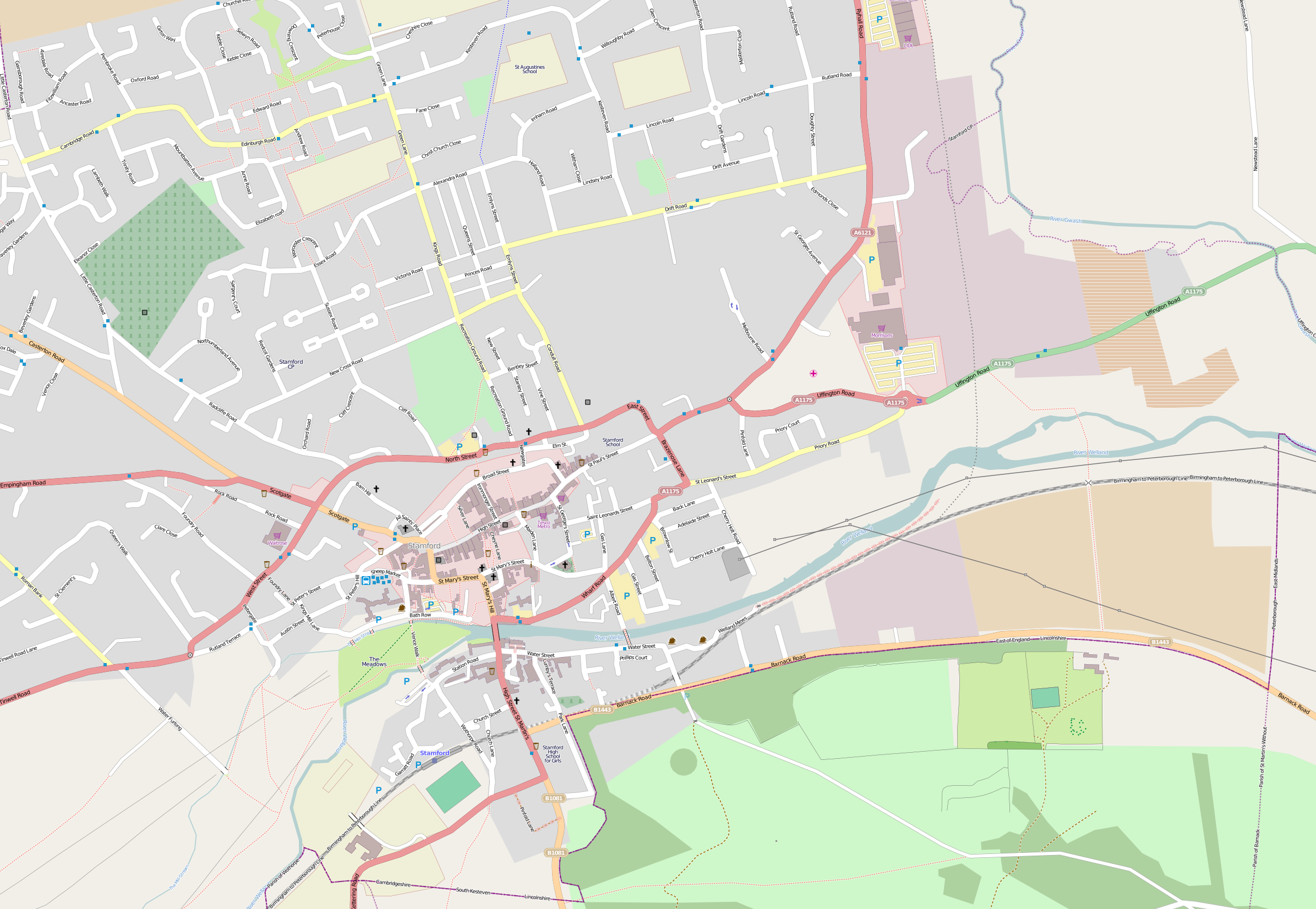 Map of Stamford Central Geographic limits: N: 52.6628° S: 52.6449° W: -0.4942° E: -0.4515°